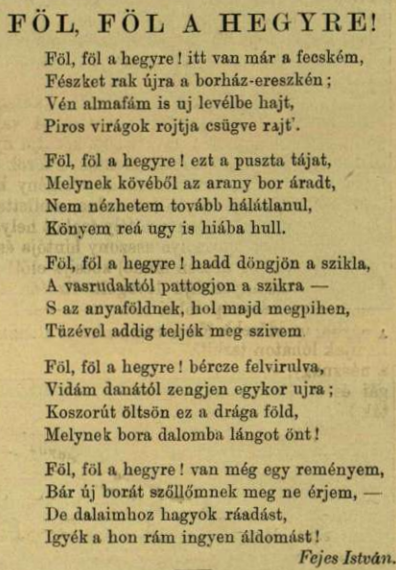 Poem of Fejes István